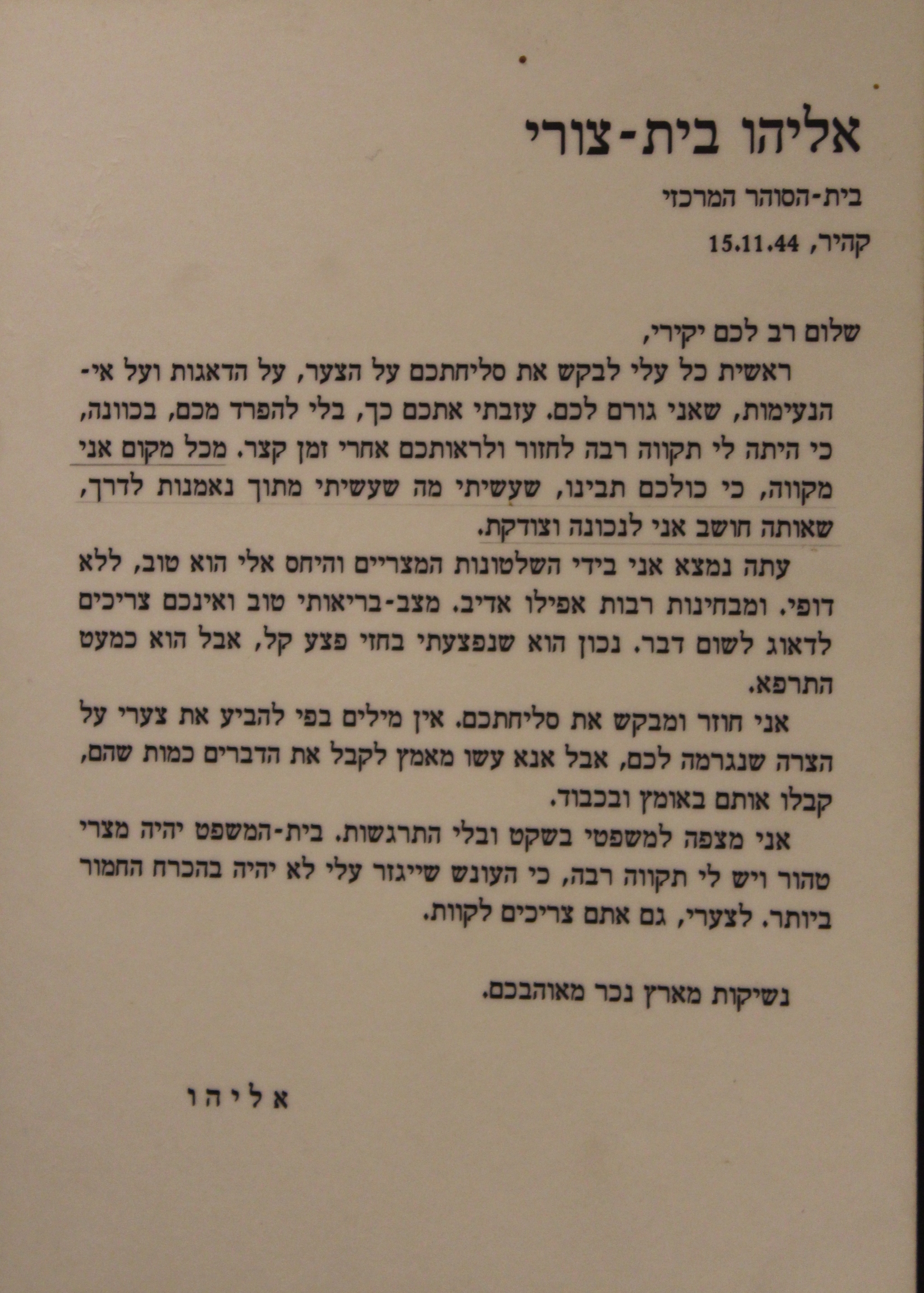 The Lehi Museum, also known as Beit Yair, is placed in the house where the Lehi commander, Avraham Stern (Yair) was assassinated. Including the room where Abraham Stern, Lehi commander, was murdered by a British policeman on 12/2/1942. The site's ID in Wiki Loves Monuments photographic competition is 3-5000-037